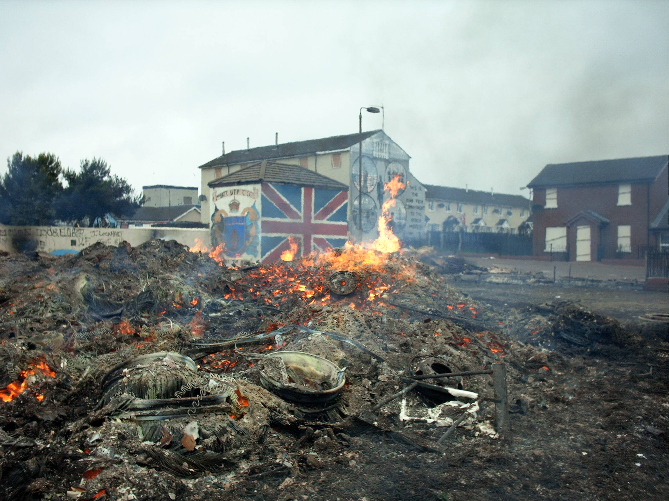 Shankill bonfire